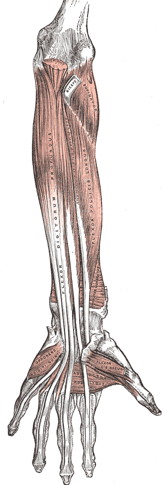 deep muscles of front of forearm